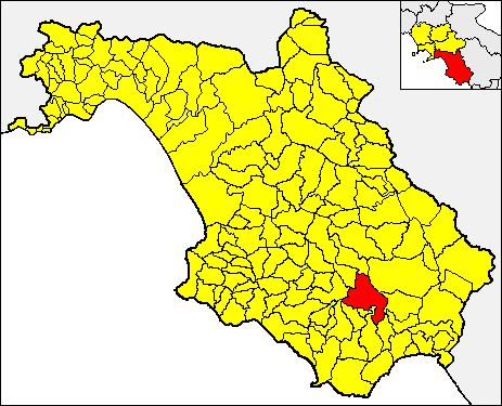 Locator map of the municipality of Rofrano (red) within the Province of Salerno